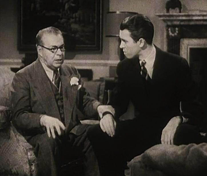 Jed Prouty (left) and James Stewart in Pot o' Gold - cropped screenshot.